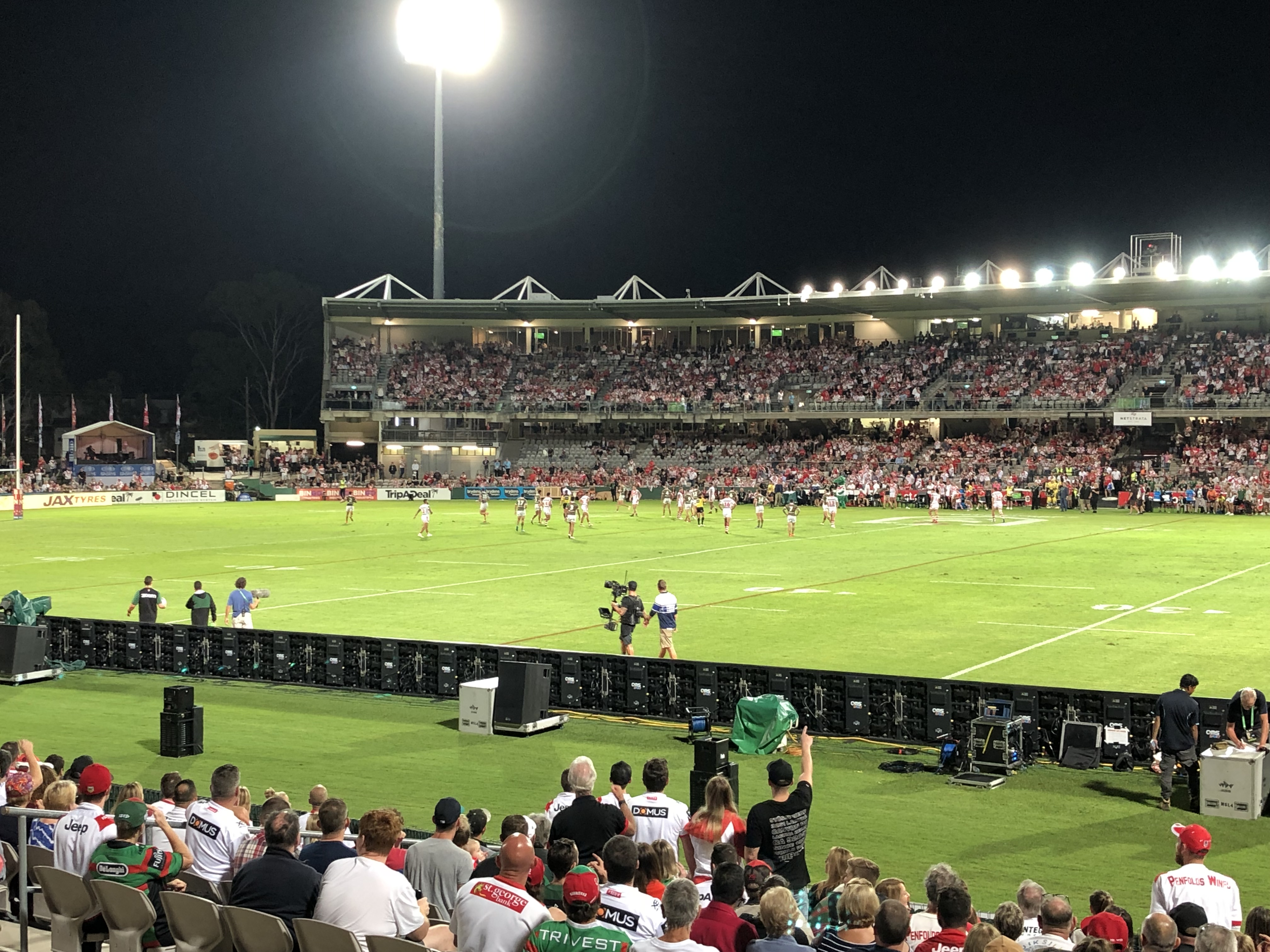 A view of the main grandstand at Jubilee Oval